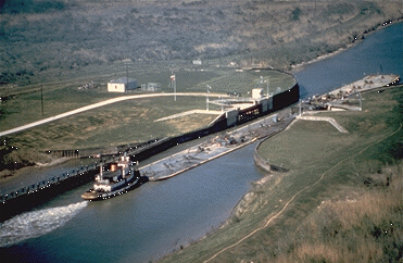 Tug & barges on Gulf Intracoastal Waterway